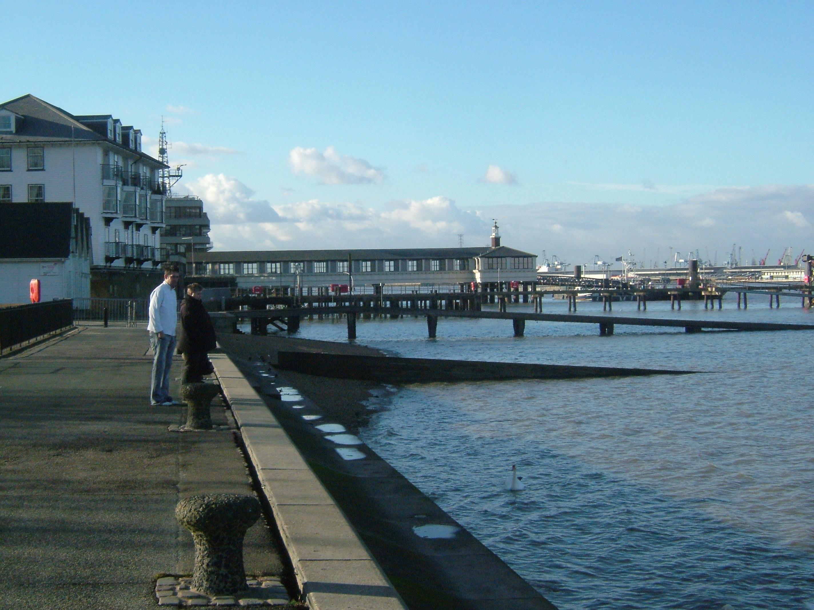 Gravesend is in North Kent, England on the River Thames. Royal Terrace Pier - Google Maps - Google Earth